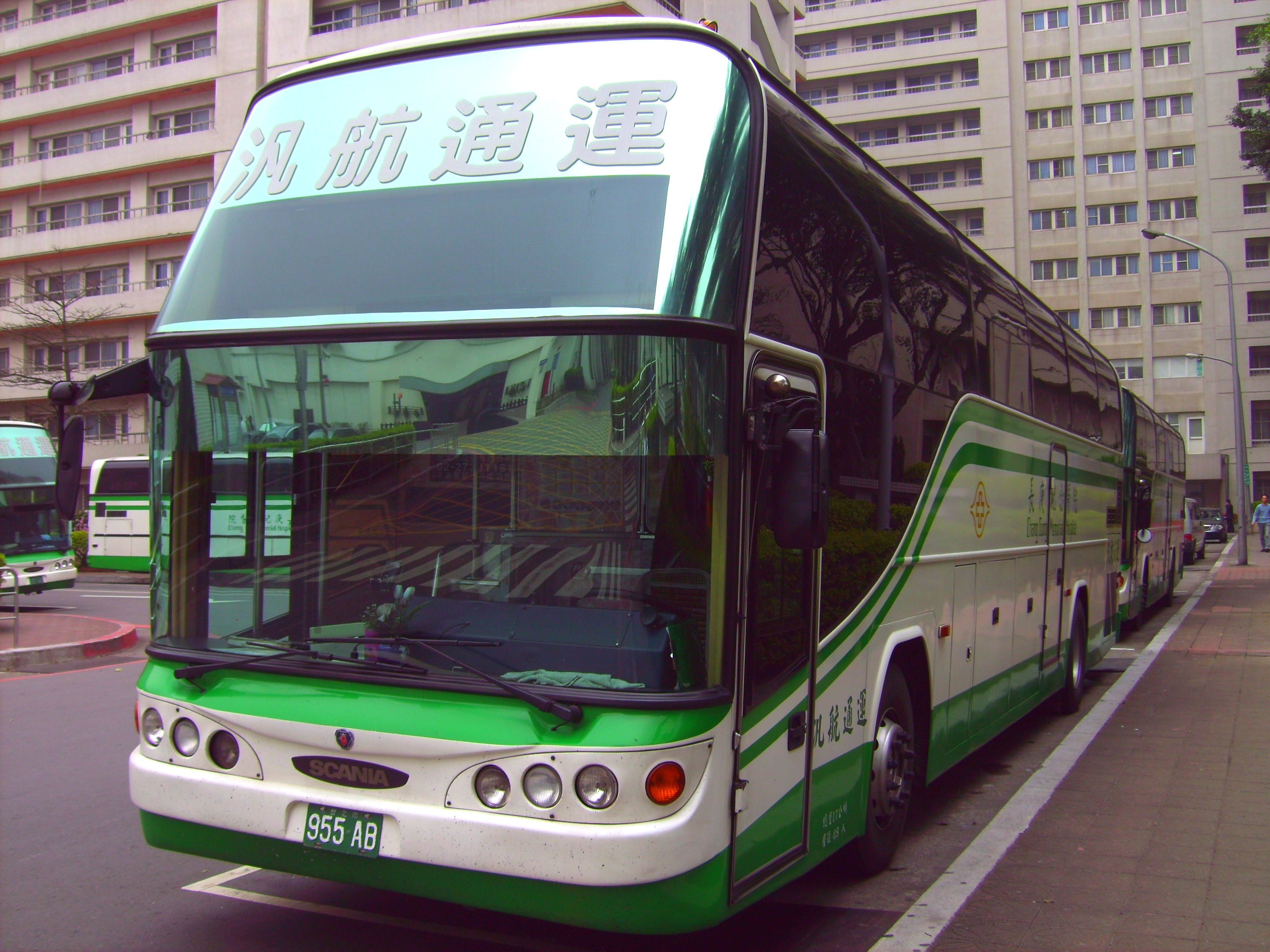 Formosa Fairway Corporation 4th Generation Bus (SCANIA K114IB4X2NB) runs Taipei Chang Gung Memorial Hospital Line (955-AB), this picture is taken at Linkou Chang Gung Memorial Hospital, Gueishan Township, Taoyuan County.